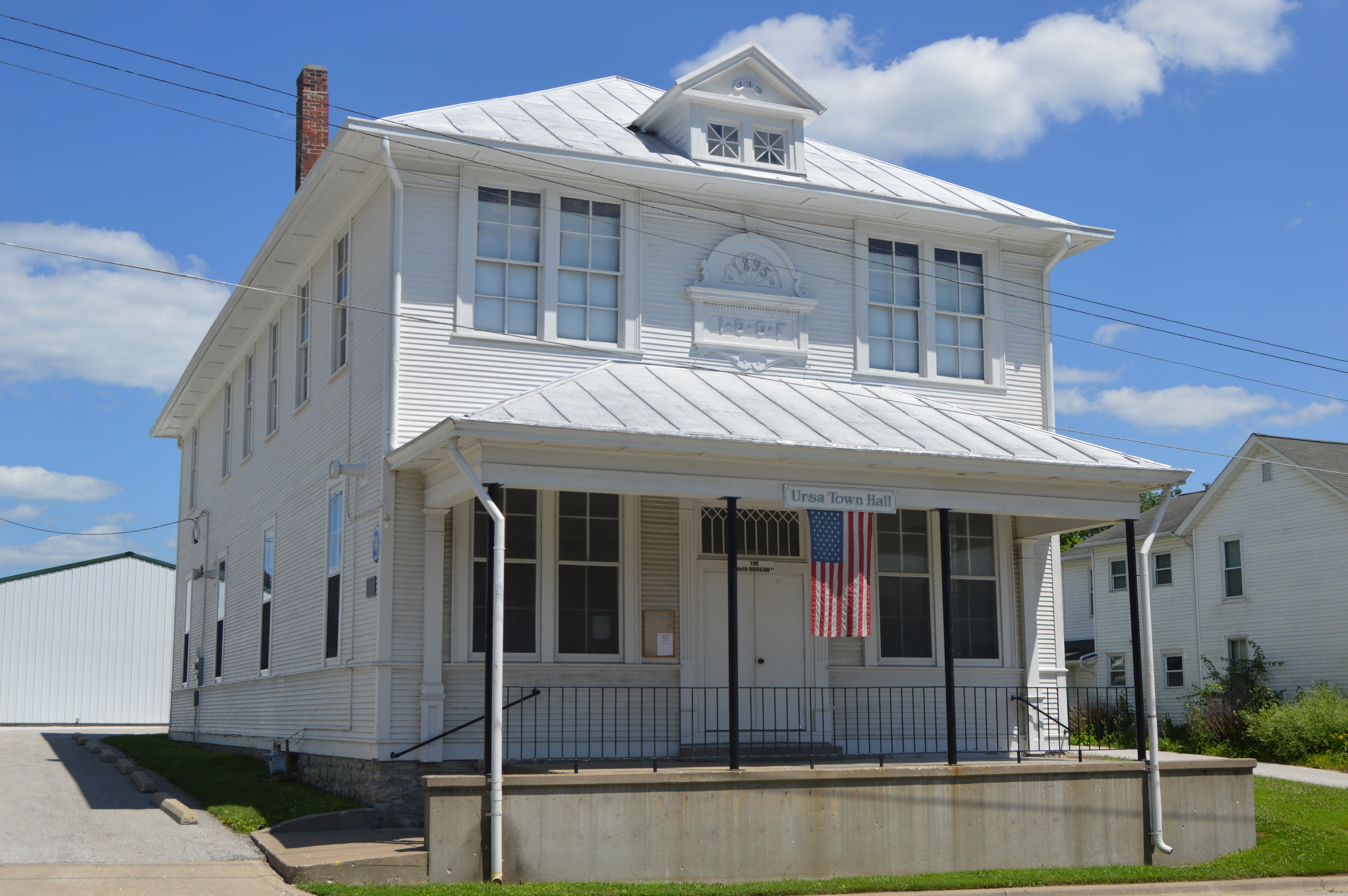 Northern side and front of the Ursa Town Hall, located at 109 S. Warsaw Street (Illinois Route 109) in Ursa, Illinois, United States. Built in 1895, it is listed on the National Register of Historic Places.